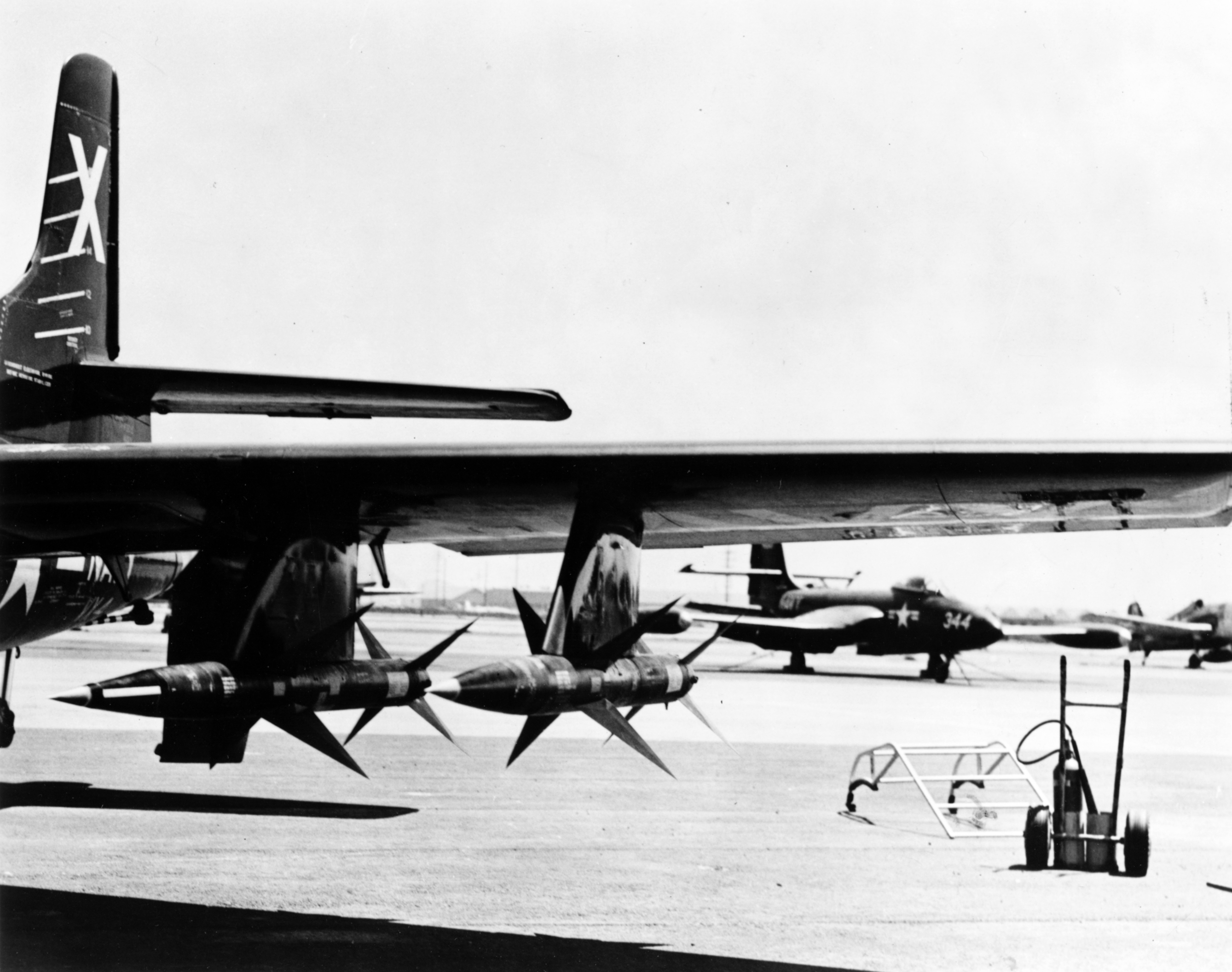 Early AAM-N-2 Sparrow air-to-air missiles on the underwing pylons of a Douglas F3D-1 Skyknight. One of the three XF3D-1 prototypes was modified in late 1952 as a test aircraft for the new Sparrow I air-to-air missile, and at least twelve F3D-1s were also modified with four stores pylons under the wings to carry the Sparrow I for development testing. These F3D-1s were given the new designation F3D-1M. The U.S. Navy test squadron VX-4 ws established on 15 September 1952 at the "Naval Air Missile Test Center" at NAS Point Mugu, California (USA), to assist in the development of the Sparrow.